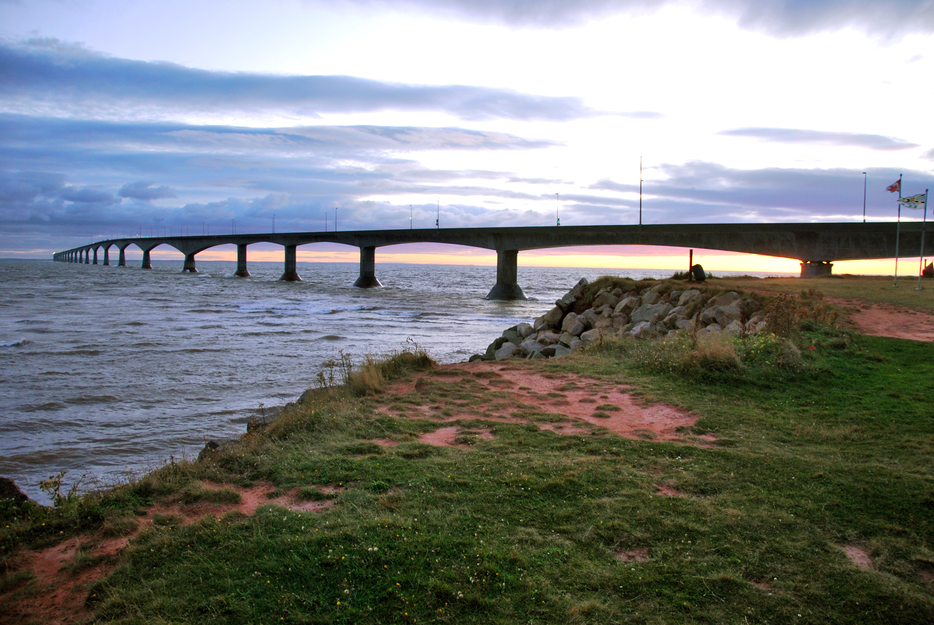 Confederation Bridge, Prince Edward Island, 2009